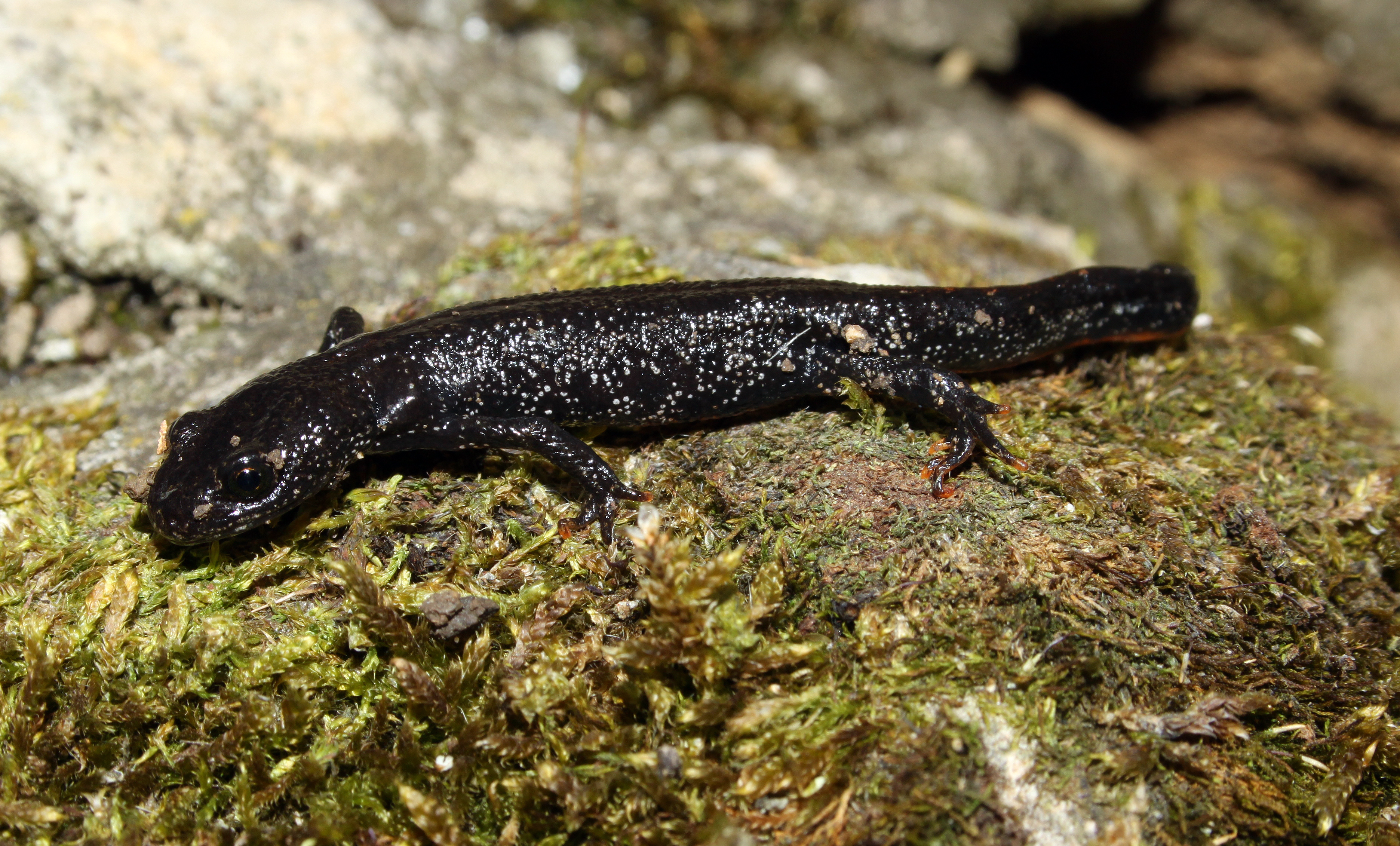 Great Crested Newt, Northern Crested Newt or Warty Newt (juvenile), Triturus cristatus, Family: Salamandridae, Location: Southern Germany, Schmiechen